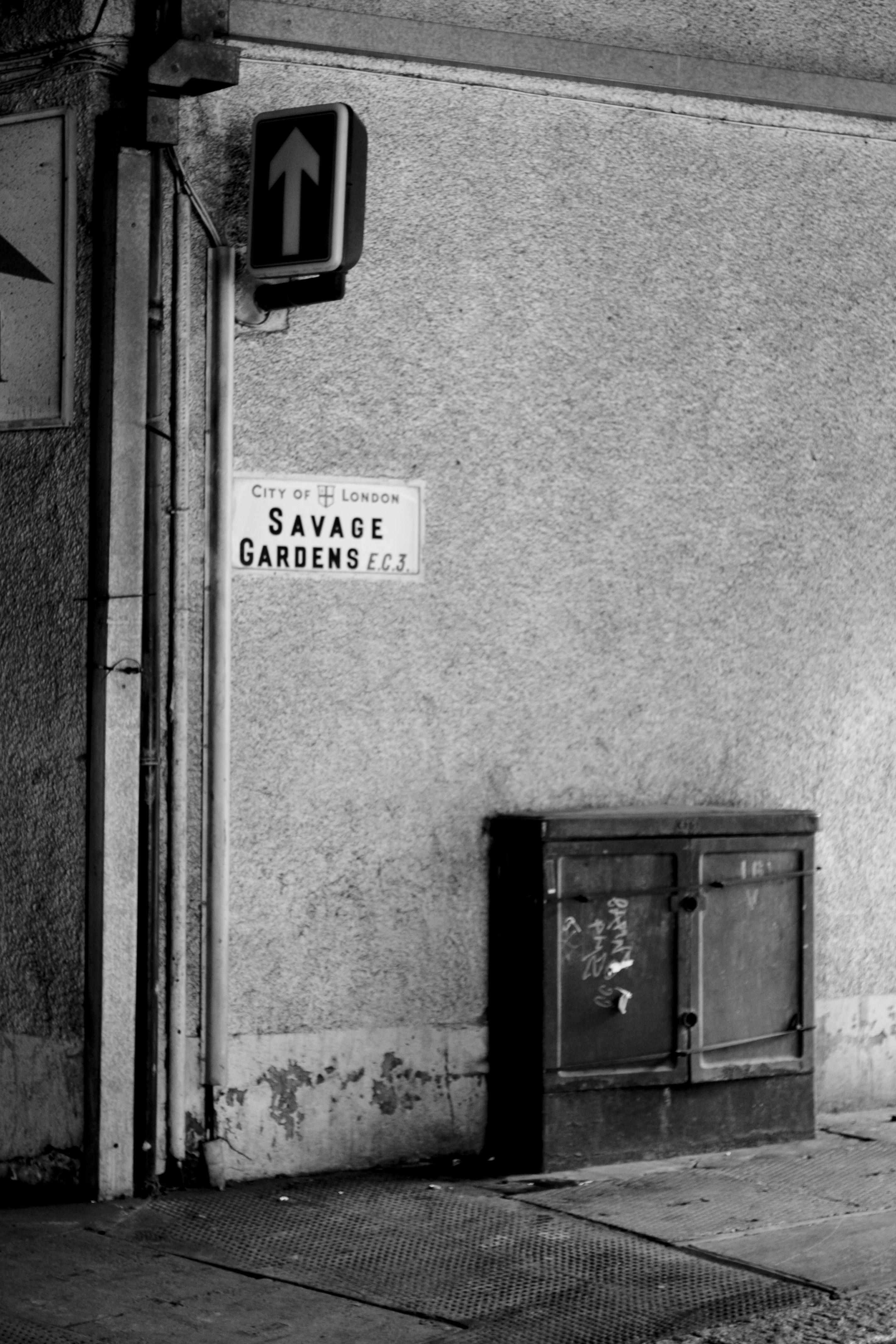 Savage Gardens, EC3 London